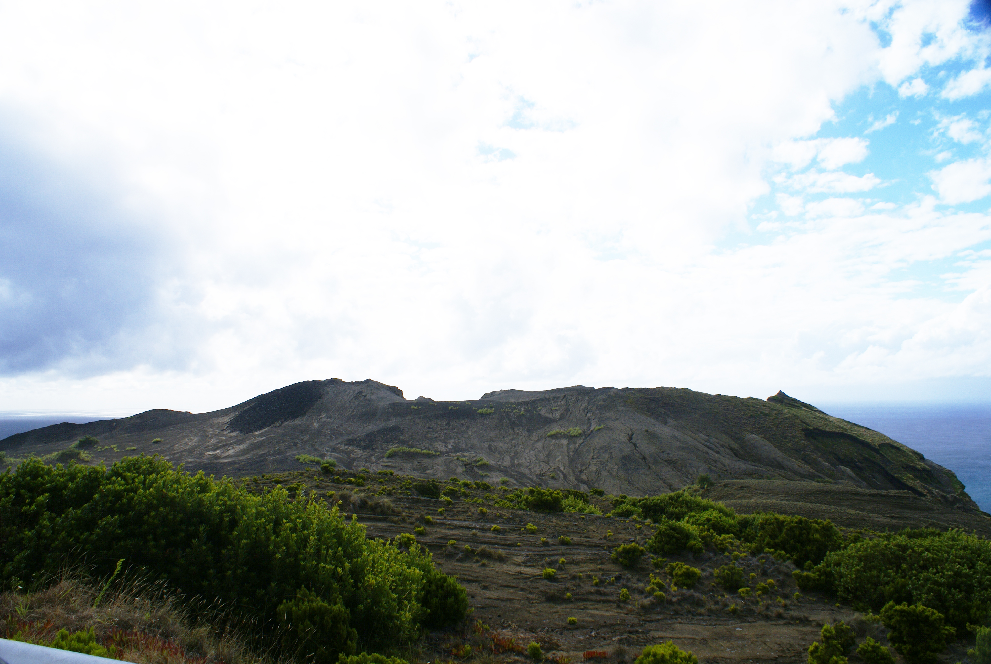 Vulcão dos Capelinhos, aspectos 1 ilha do Faial, Açores, Portugal